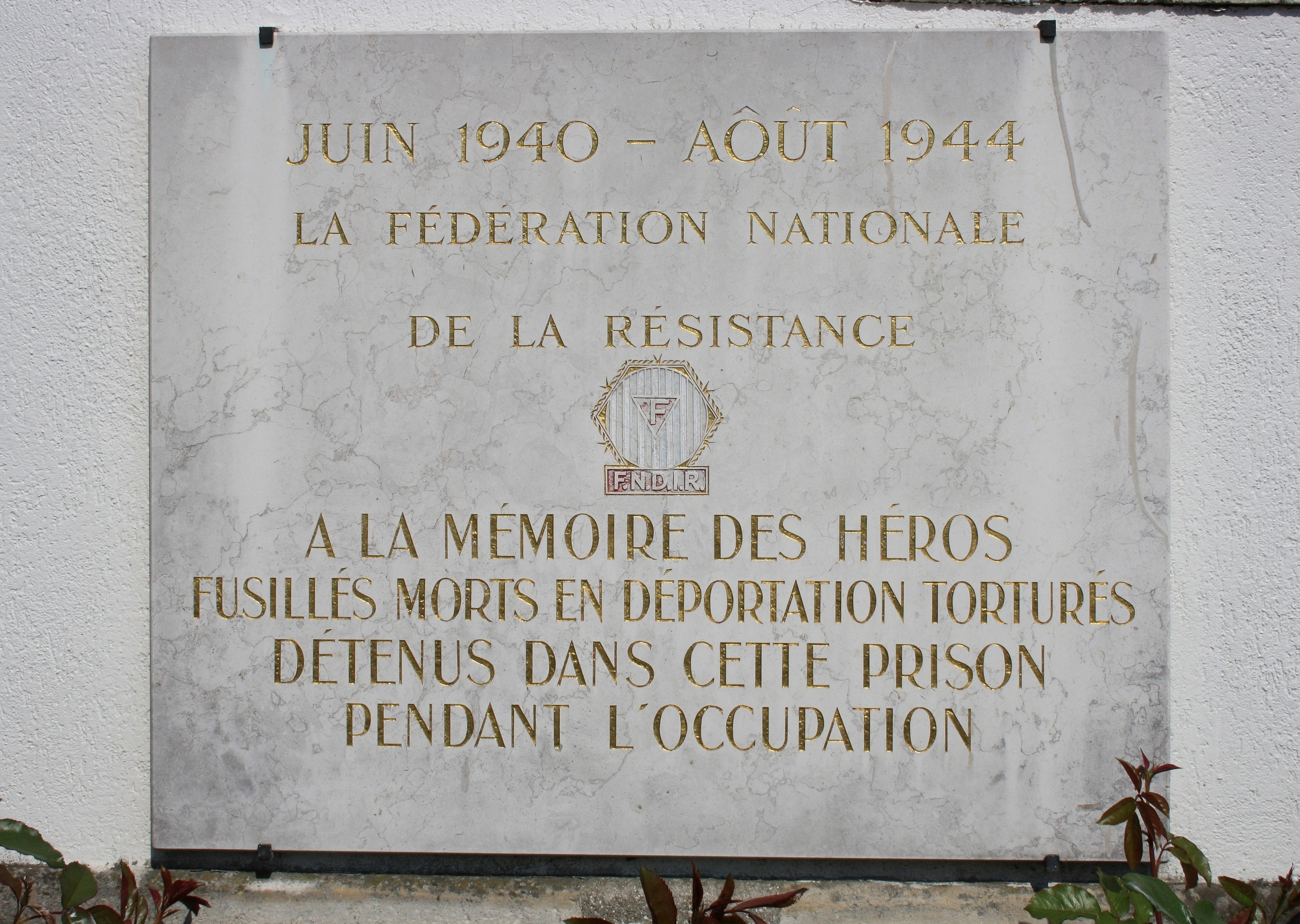 Prison plaque in Fresnes near Paris, France